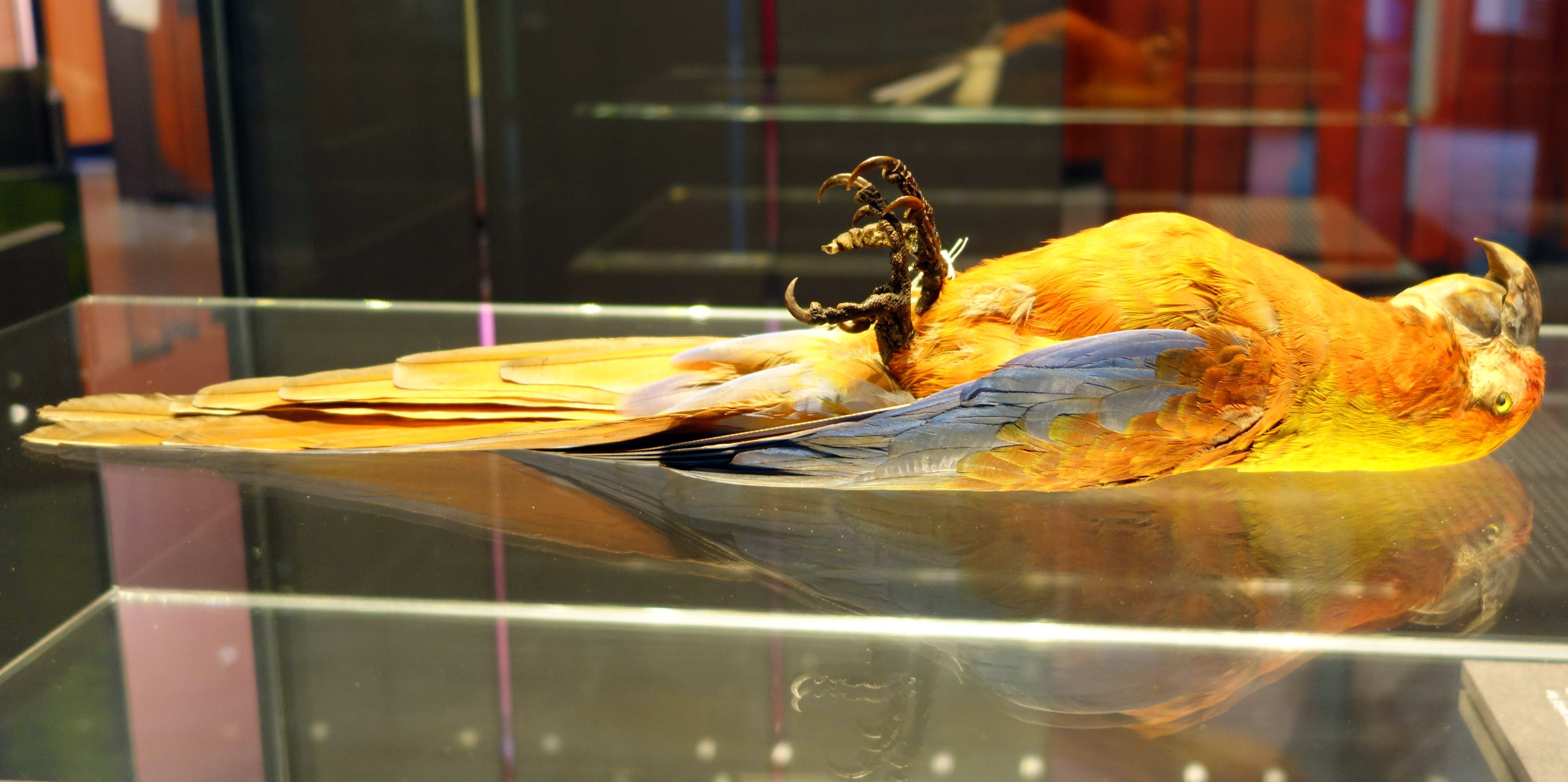 Ara tricolor specimen on display at the Museum für Naturkunde, Berlin.